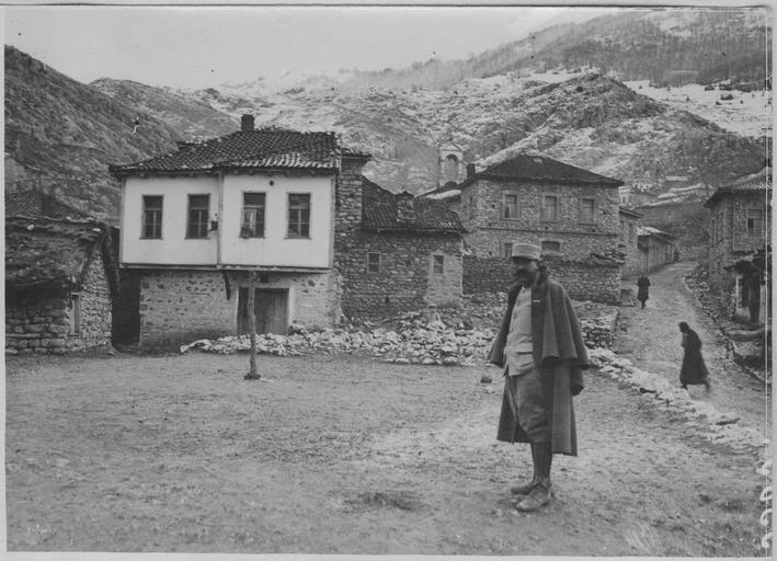 Village of Smrdesh / Kristalopigi, Greece